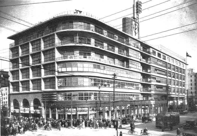 Ishimoto Kikuji: Shirokiya Departament Store 1928-31, Tokyo